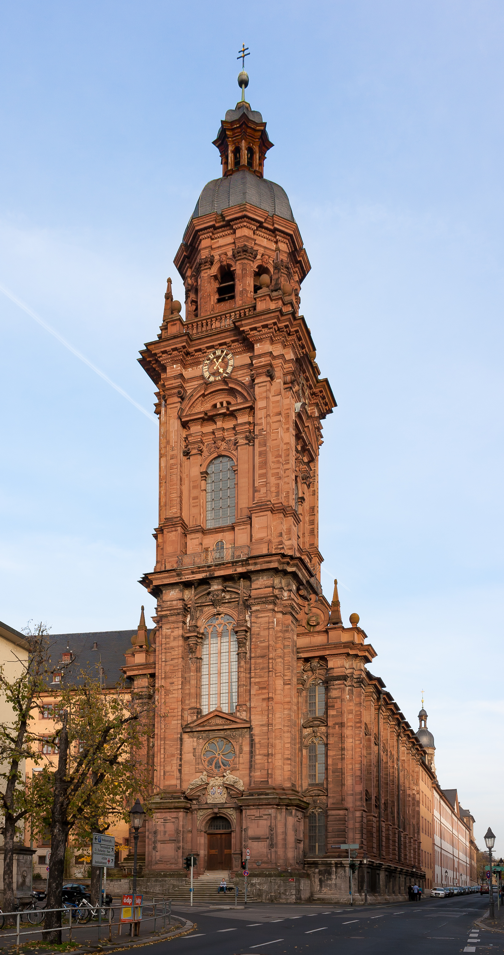 Neubaukirche in Würzburg (Germany)